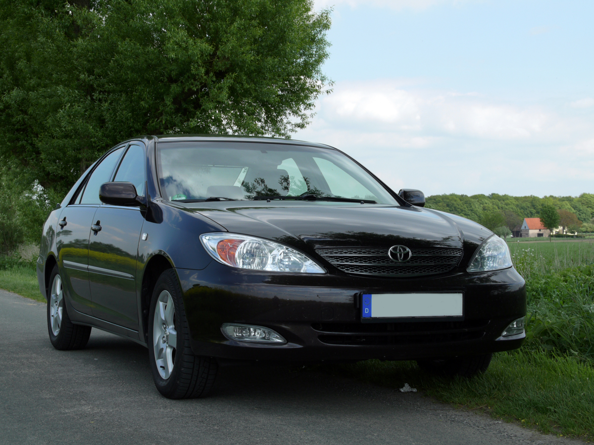 European version of Toyota Camry V6 XLE (2001-2004), MCV30